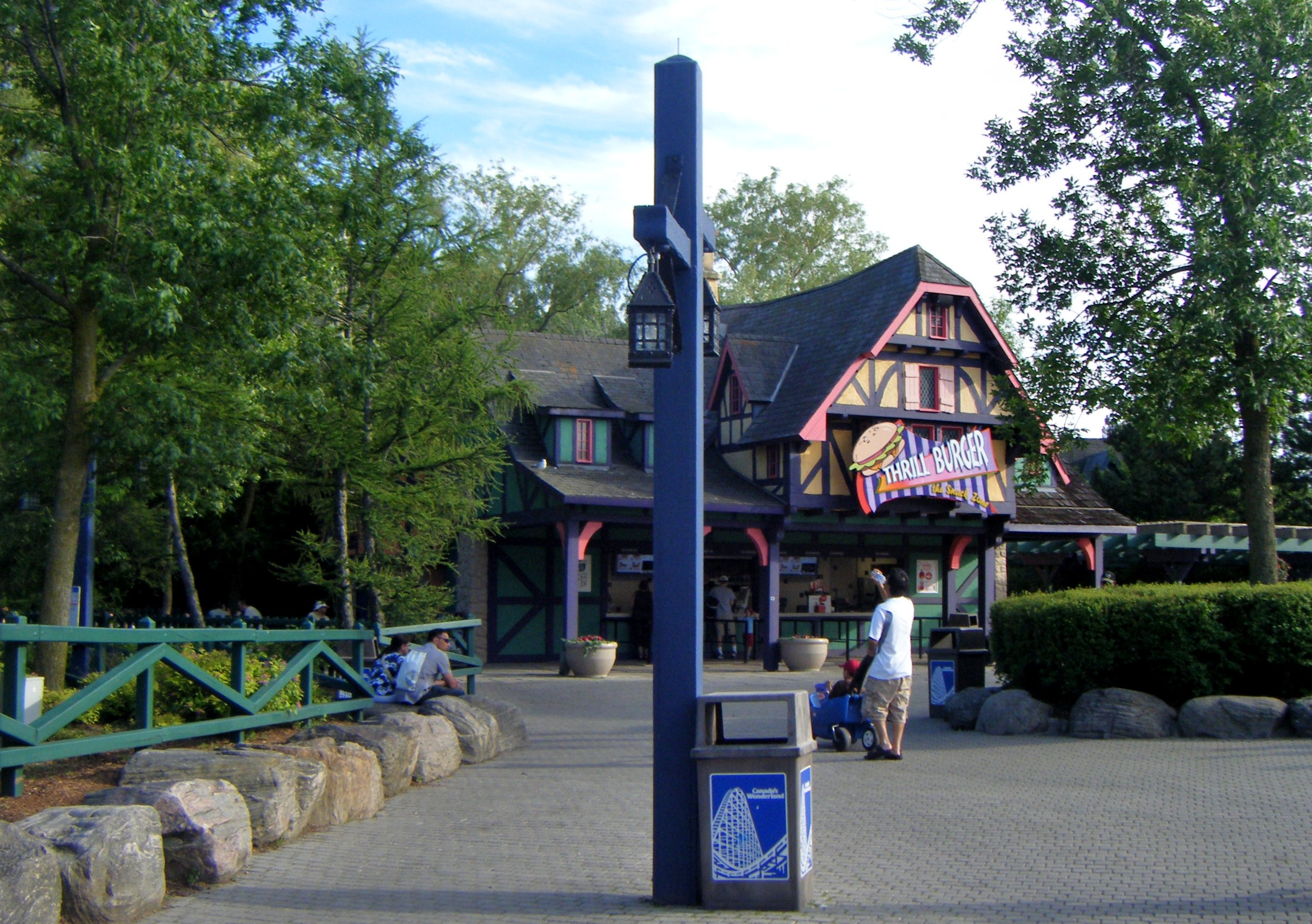 Thrill Burger in Medieval Faire, at Canada's Wonderland.